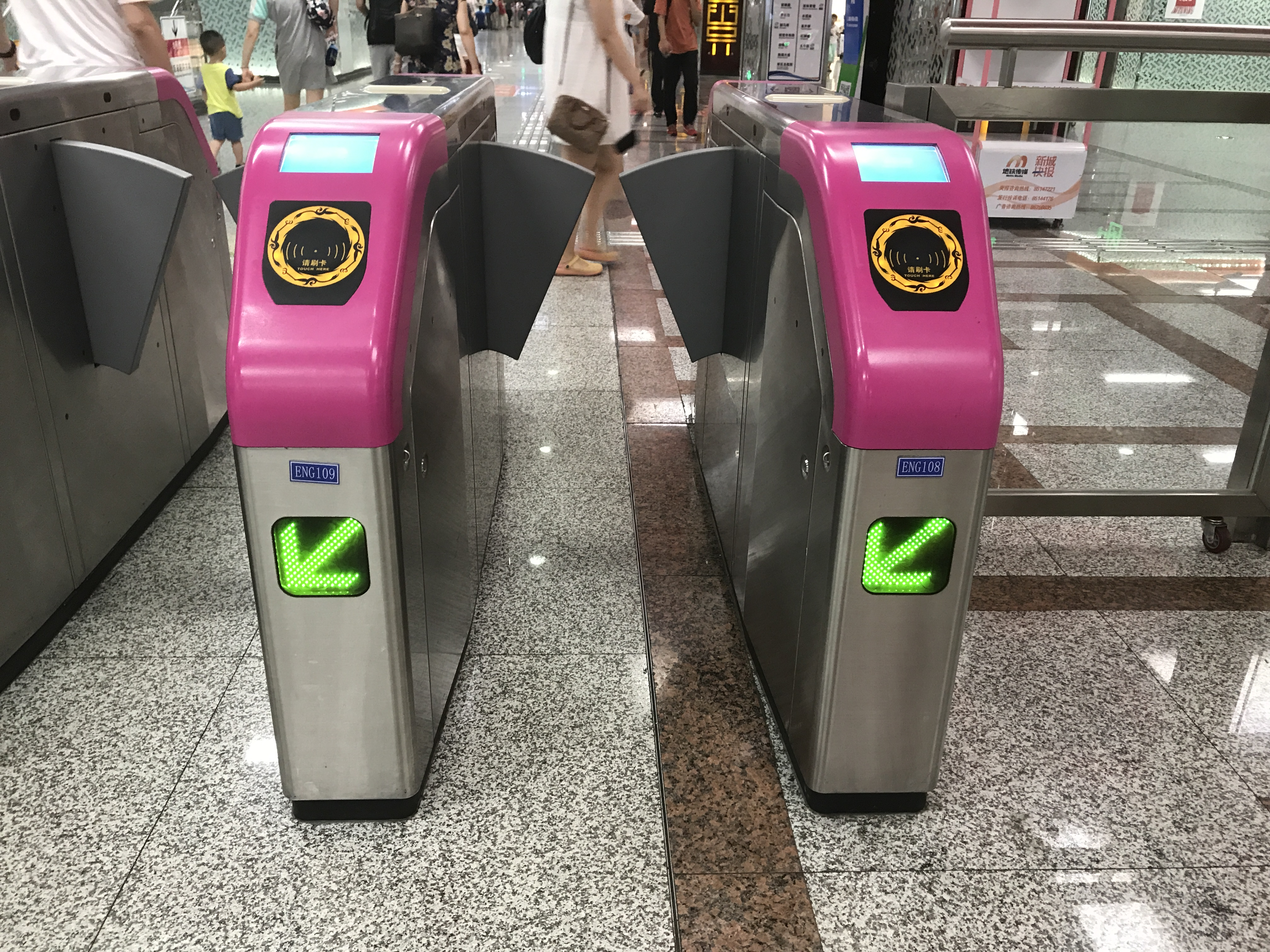 Turnstile in Chunxi Road Station, Chengdu Metro